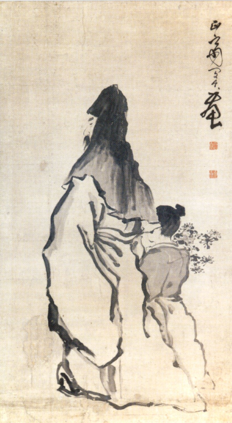 Tao Yuanming, ink on paper scroll by Min Zhen, 18th century China